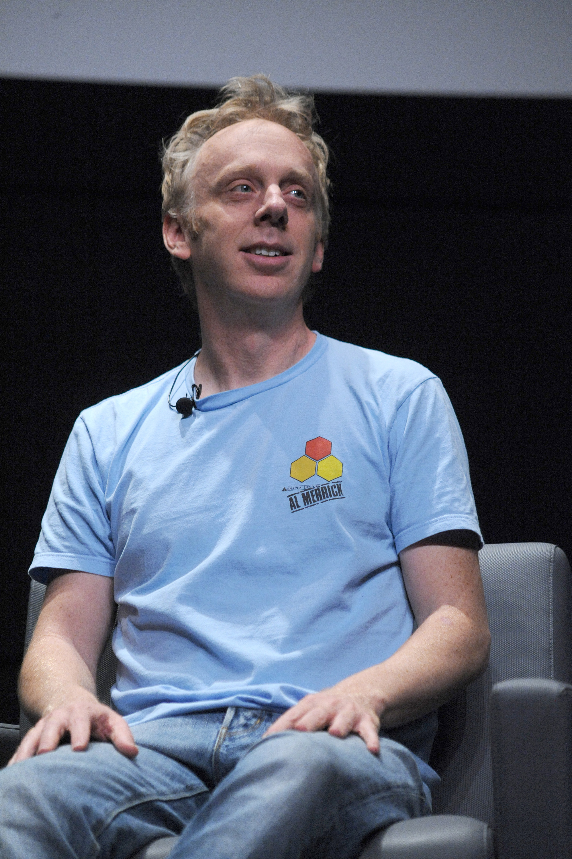 Mike White (writer/actor, SCHOOL OF ROCK, NACHO LIBRE, ORANGE COUNTY) gave a public masterclass as part of the 2011/2012 edition of the Telefilm Canada Features Comedy Lab in Toronto on November 16, 2011. To learn more about the Telefilm Canada Features Comedy Lab, please visit